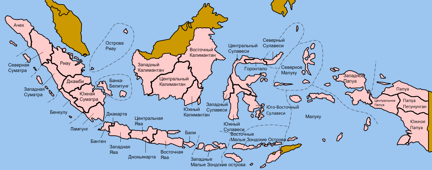 Political map of Indonesia in Russian